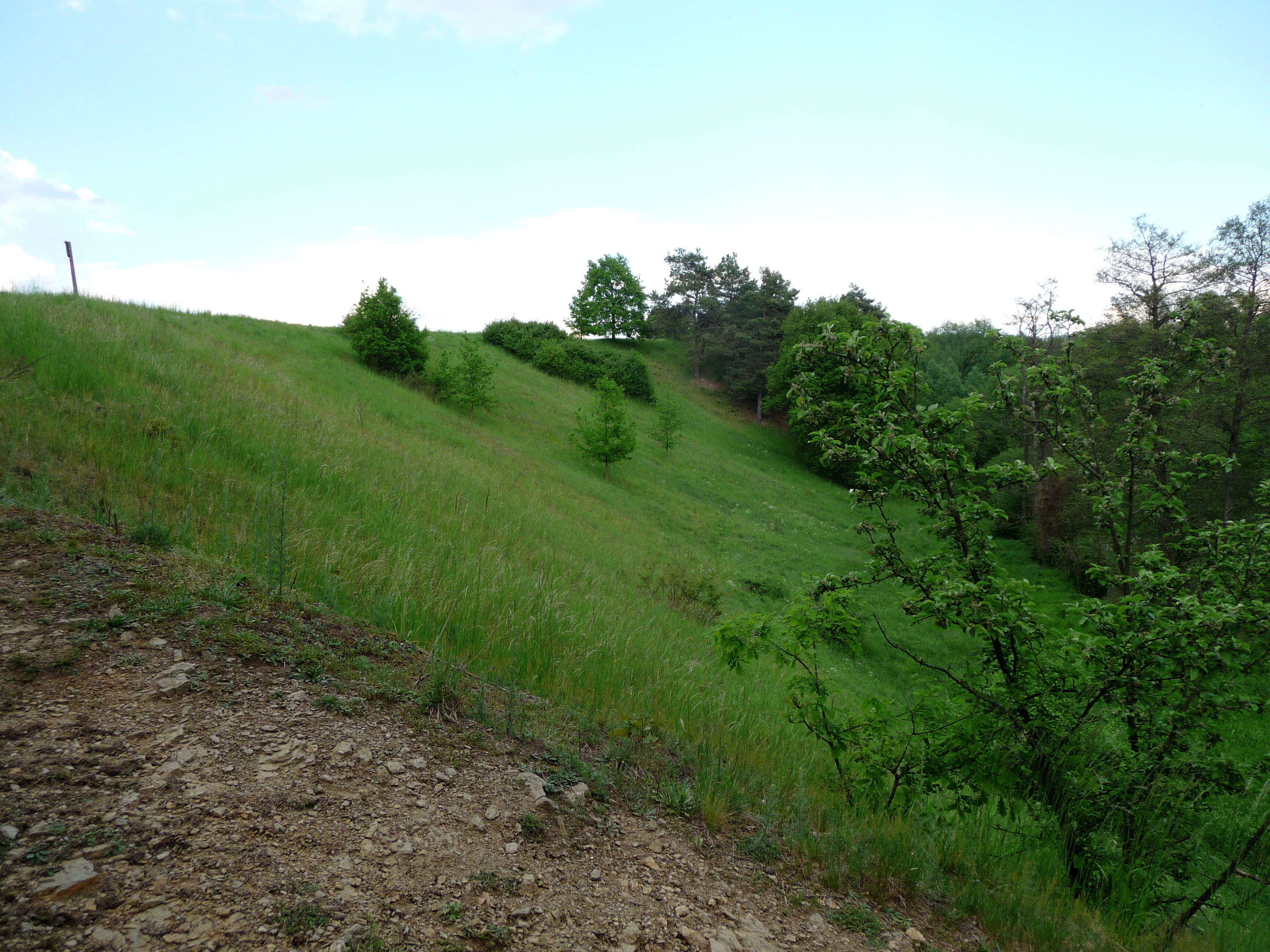 Natural monument Luna near Sezimovo Ústí, Tábor District